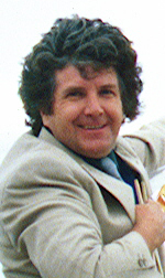 Peter Powell flying a small stack of his kites at the 1st AKA Convention in Ocean City, Maryland in 1978.